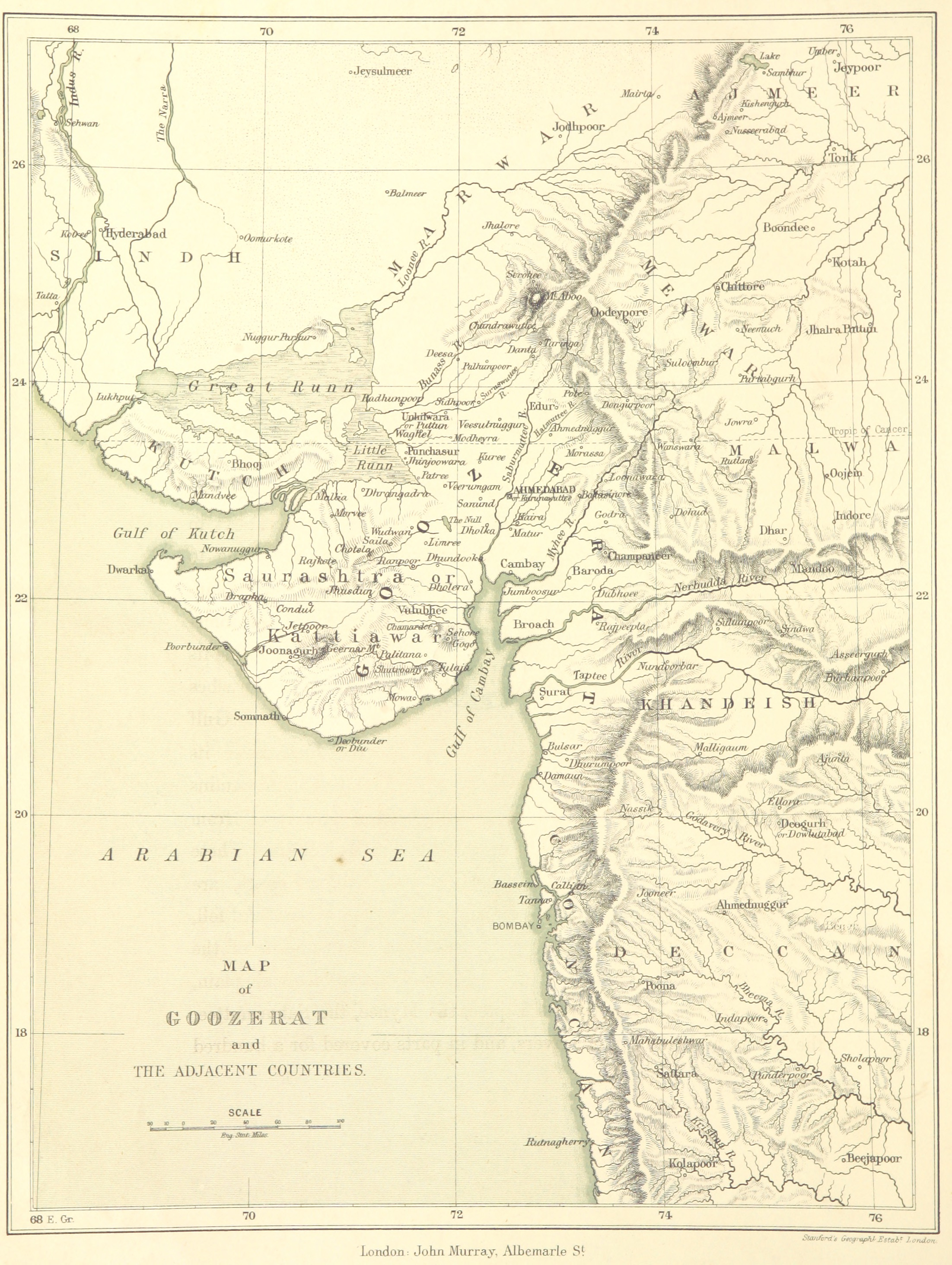 Image taken from: Title: "Architecture at Ahmedabad, the Capital of Goozerat, photographed by Colonel Biggs, ... With an historical and descriptive sketch, by T. C. H., ... and architectural notes by J. Fergusson, etc" Author: HOPE, Theodore Cracraft - Sir, K.C.S.I Contributor: BIGGS, Thomas. Contributor: FERGUSSON, James - Architect Shelfmark: "British Library HMNTS 10057.f.17.", "British Library OC V 6665" Page: 24 Place of Publishing: London Date of Publishing: 1866 Issuance: monographic Identifier: 001730119 Explore: Find this item in the British Library catalogue, 'Explore'. Download the PDF for this book (volume: 0) Image found on book scan 24 (NB not necessarily a page number) Download the OCR-derived text for this volume: (plain text) or (json) Click here to see all the illustrations in this book and click here to browse other illustrations published in books in the same year. Order a higher quality version from here.